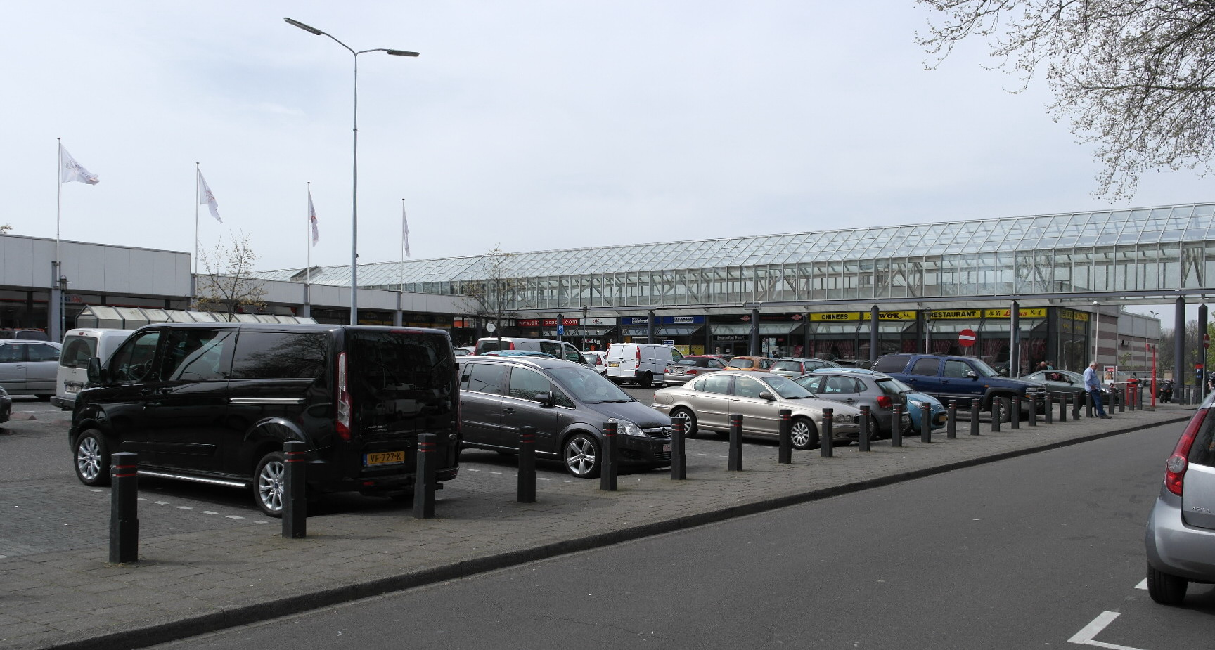 Maastricht, the Netherlands. View of parking lot at shopping mall Brusselse Poort in the Maastricht-West neighbourhood of Brusselsepoort.